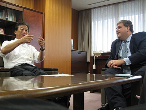 Eric Hargan, Acting Deputy Secretary of Health and Human Services, talked with Kiyoshi Kurokawa, Special Advisor to the Cabinet, in Tōkyō Metropolis, on July 11, 2007.